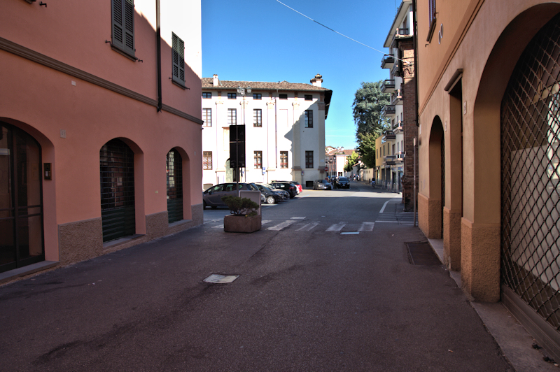 Via Ponte Furio, street in Crema (Italy)